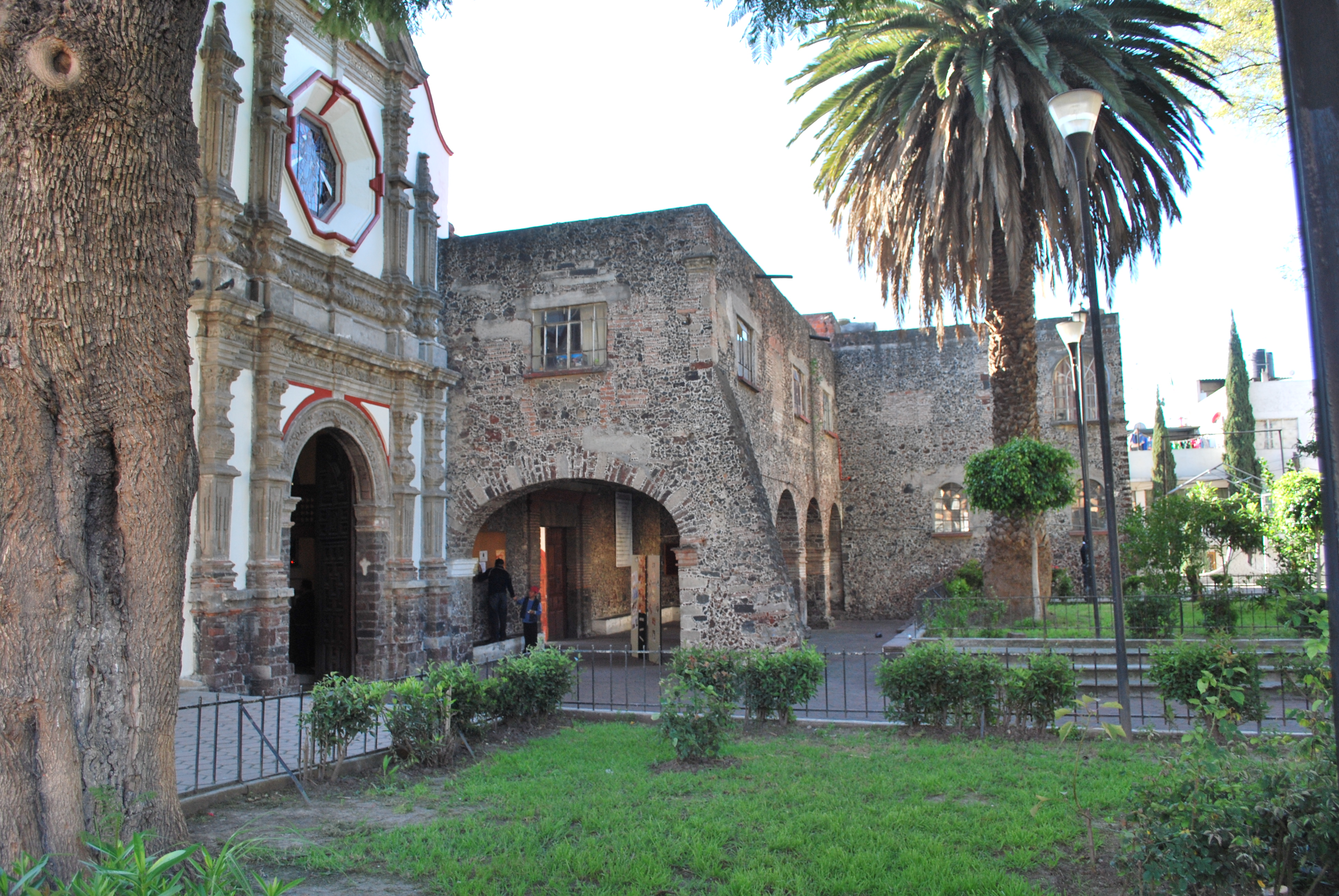 Monastery area of the San Matias Church in Iztacalco, Mexico City